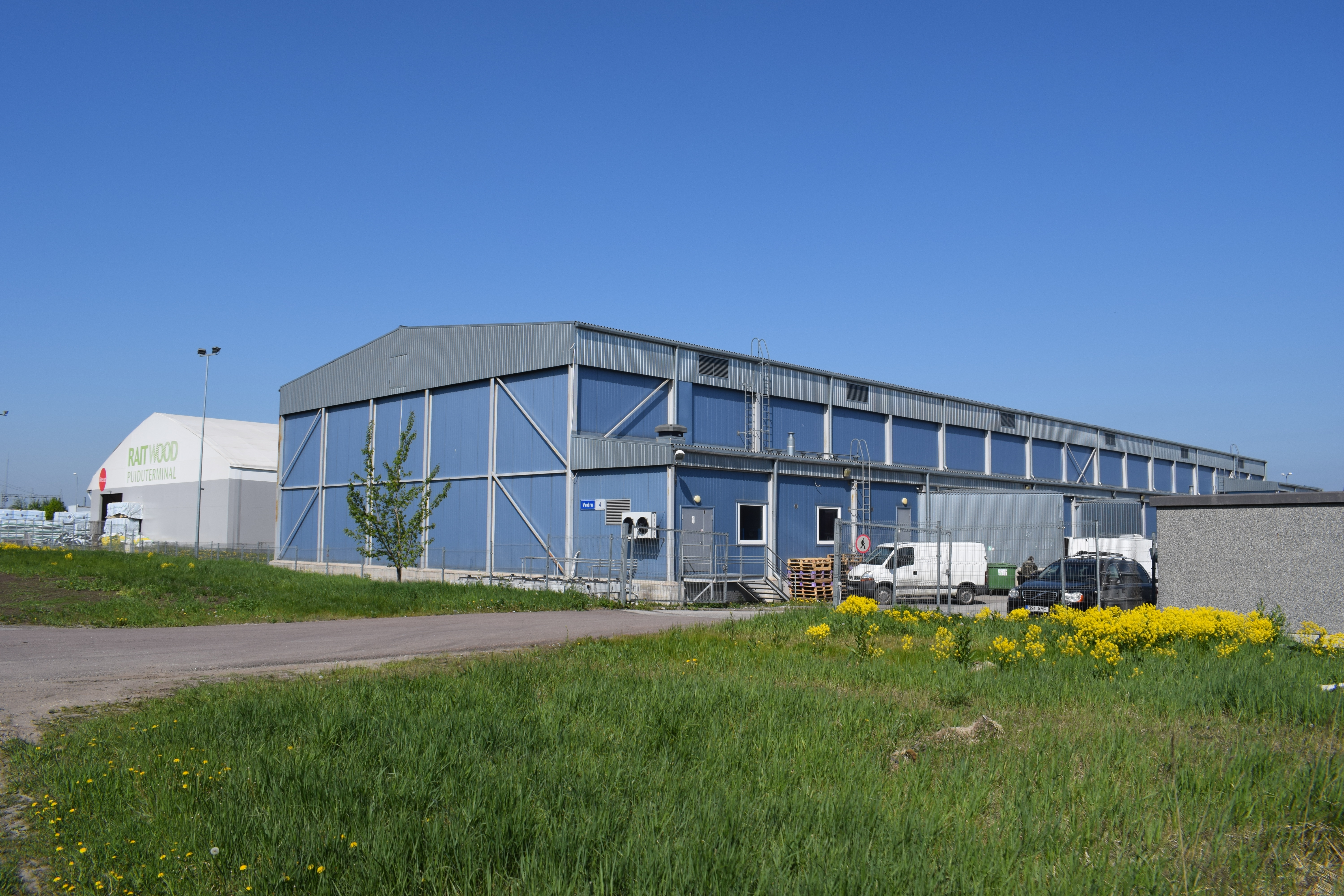 Tallinn